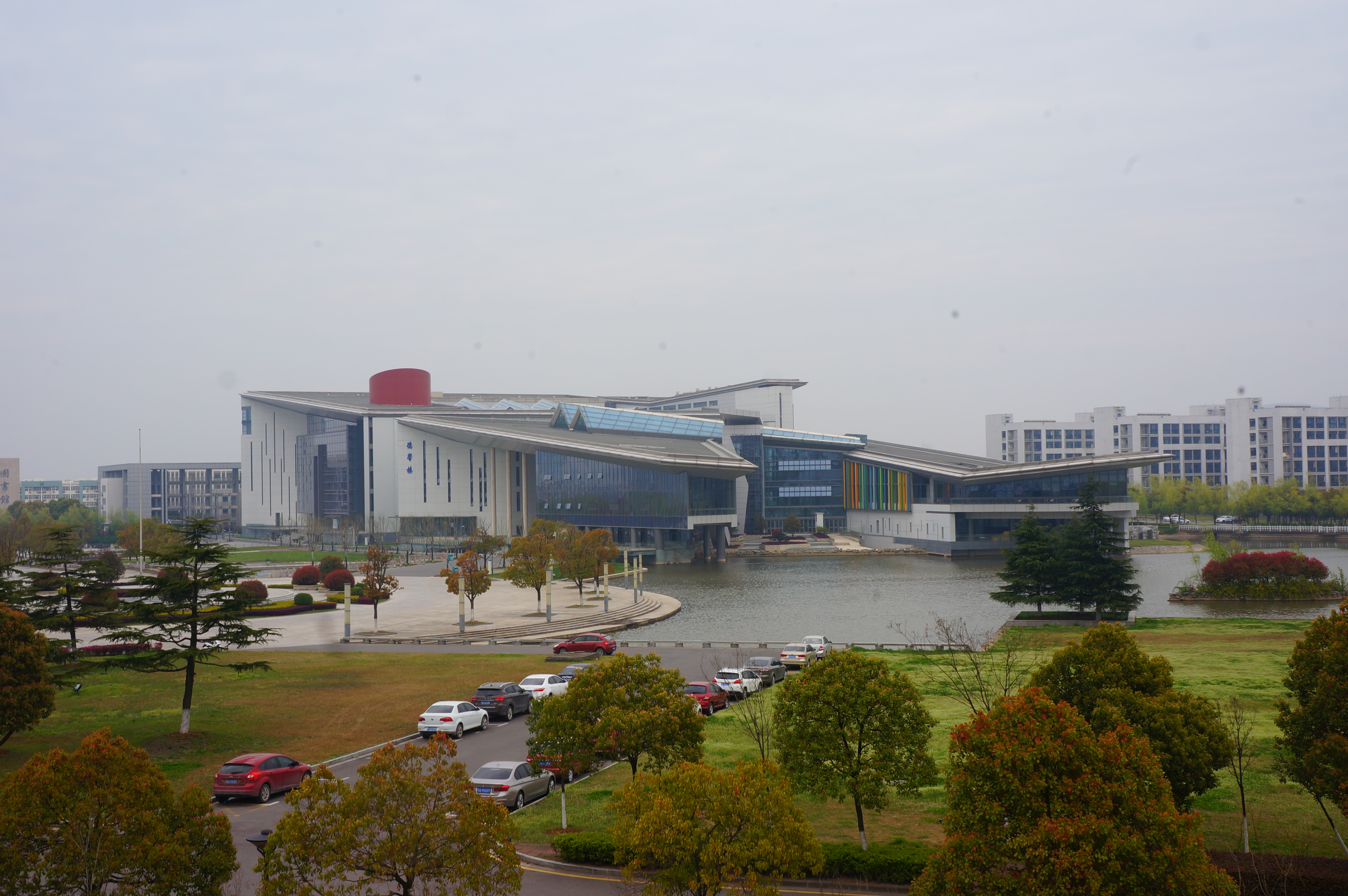 201704 Library of NMU Jiangning Campus